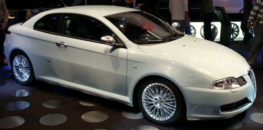 Alfa Romeo GT